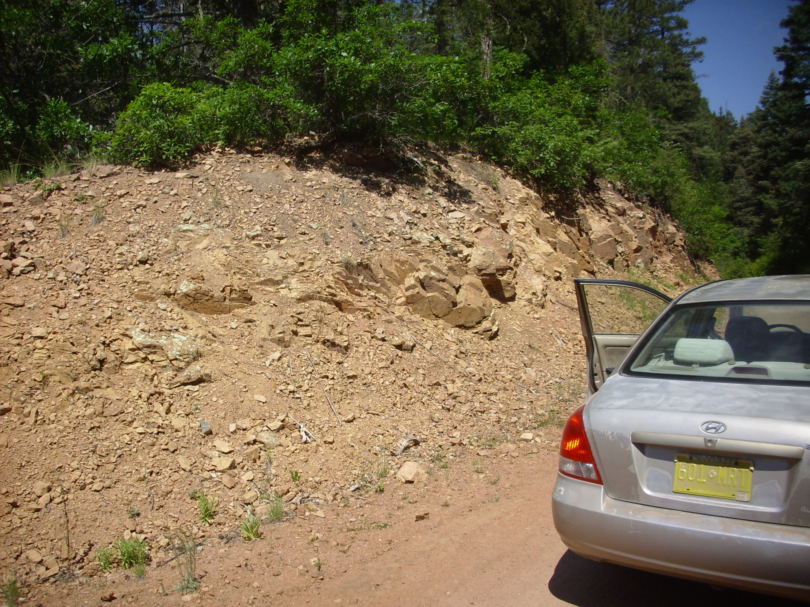 This image shows anxposure of Joaquin quartz monzonite in a road cut in the Nacimiento Mountains, New Mexico, United States. The Joaquin quartz monzonite is a Mesoproterozoic pluton.